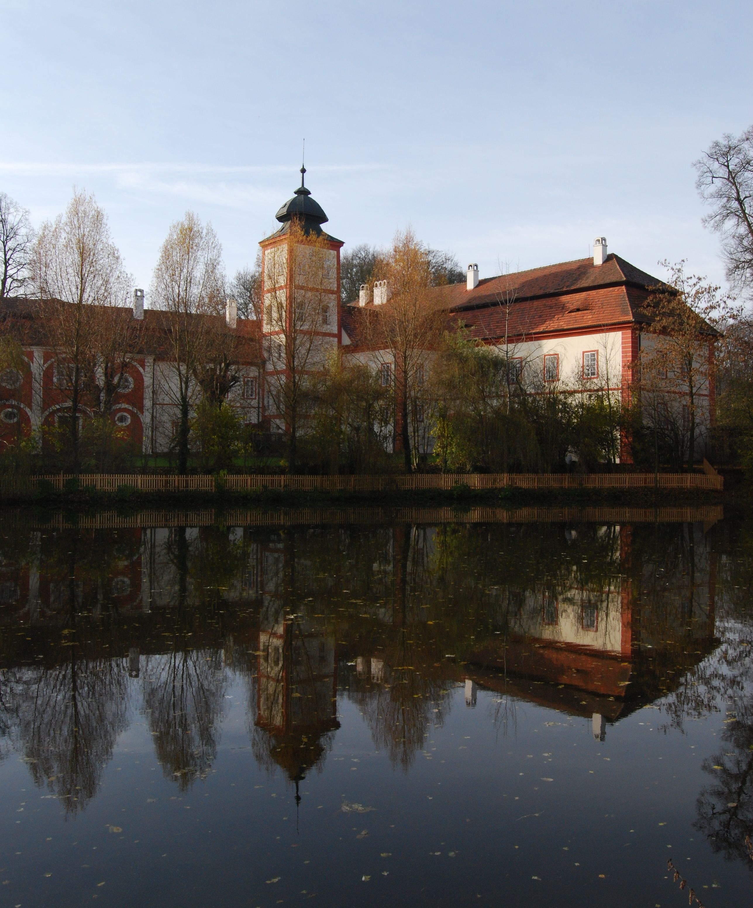 Drahenice village in Příbram District, Czech Republic. Drahenice château